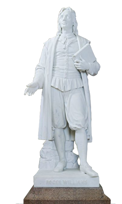 Derivative of Wiki Commons File:Flickr - USCapitol - Roger Williams Statue.jpg of the Roger Williams Statue at the U.S. Capitol by User:Matanya with a RGB 402 pixel by 670 pixel image of the statue over a transparent background. Roger Williams (1603/06-1683) Rhode Island Marble by Franklin Simmons Given in 1872 Senate Wing, 2nd Floor U.S. Capitol For more information on this statue that is part of the National Statuary Hall Collection in the U.S. Capitol visit: This official Architect of the Capitol photograph is being made available for educational, scholarly, news or personal purposes (not advertising or any other commercial use). When any of these images is used the photographic credit line should read “Architect of the Capitol.” These images may not be used in any way that would imply endorsement by the Architect of the Capitol or the United States Congress of a product, service or point of view. For more information visit